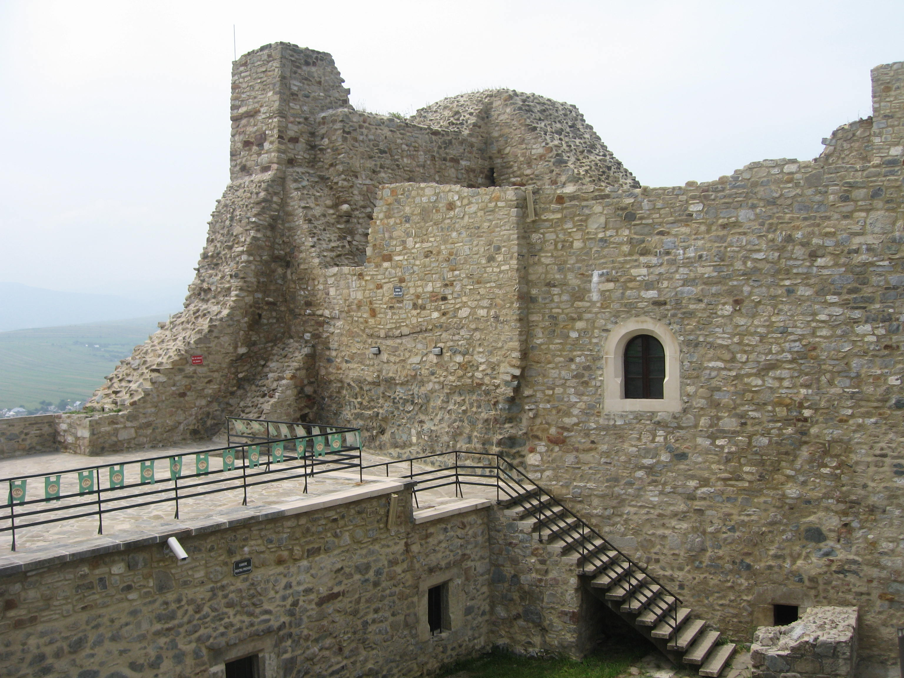 Neamț Citadel